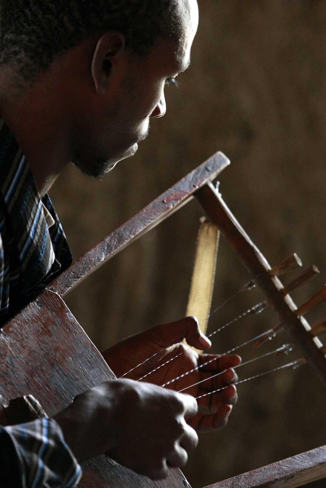 Another shot of a young man playing the k'ra, a traditional instrument of Ethiopia. The name is very similar to the kora of West Africa.